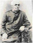 Monsignor Sebastian Kneipp, 1821-1897